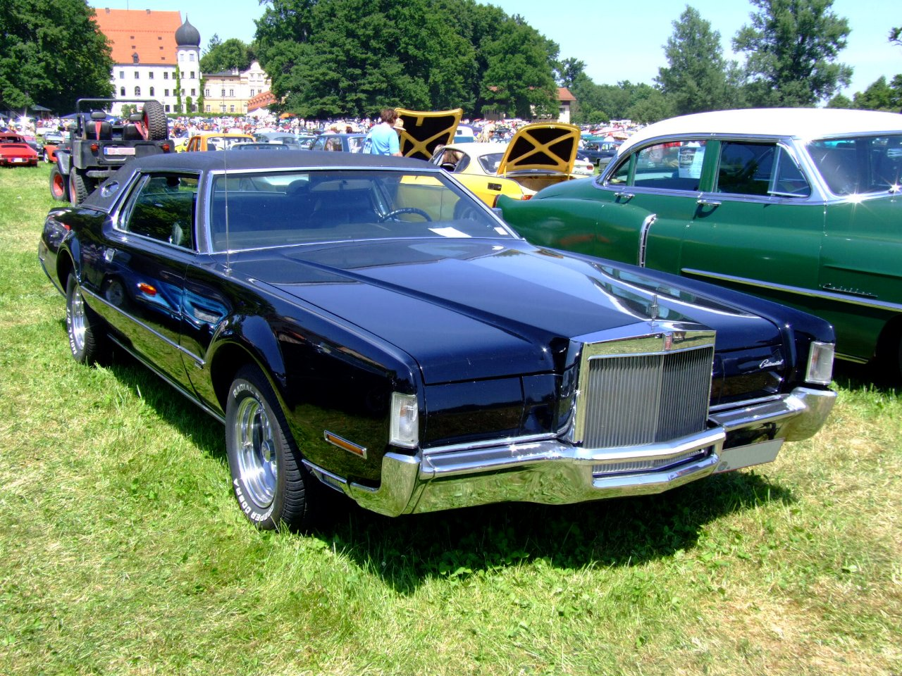 Lincoln Continental MK4 1972 Baujahr: 1972 222 PS 7,5 Liter Motor/Engine